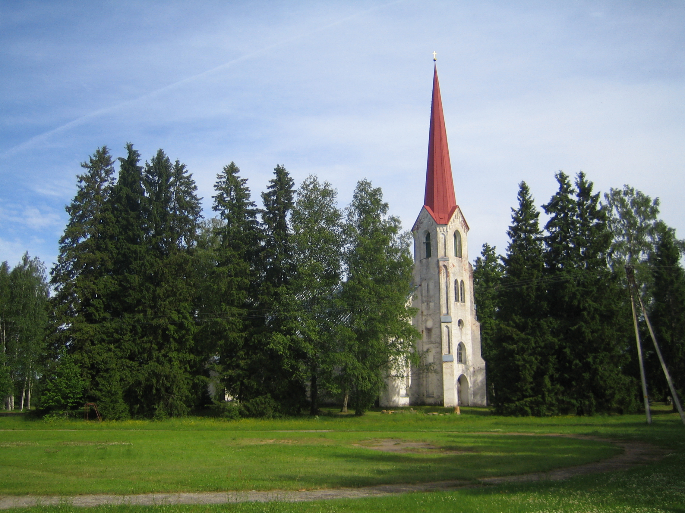 Luther church in Lohusuu, Estonia